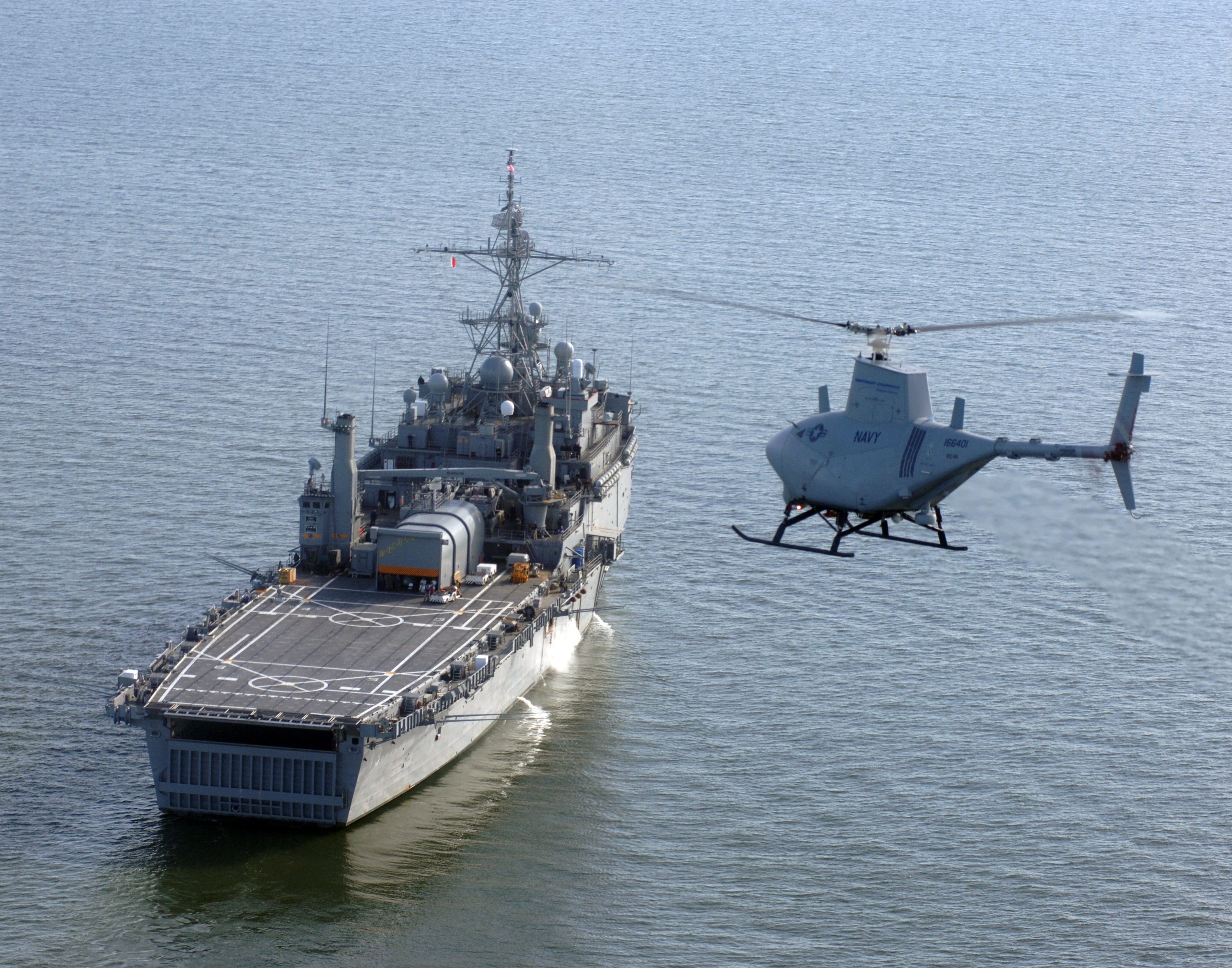 A U.S. Navy RQ-8A Fire Scout Vertical Takeoff and Landing Tactical Unmanned Aerial Vehicle (VTUAV) System prepares to land aboard the amphibious transport dock ship USS Nashville (LPD 13). This is the first autonomous landing of the Fire Scout aboard a Navy vessel at sea. With an on-station endurance of over four hours, the Fire Scout system is capable of continuous operations, providing coverage at 110 nautical miles from the launch site. Utilizing a baseline payload that includes electro-optical/infrared sensors and a laser rangefinder/designator, Fire Scout can find and identify tactical targets, track and designate targets, accurately provide targeting data to strike platforms, employ precision weapons, and perform battle damage assessment.